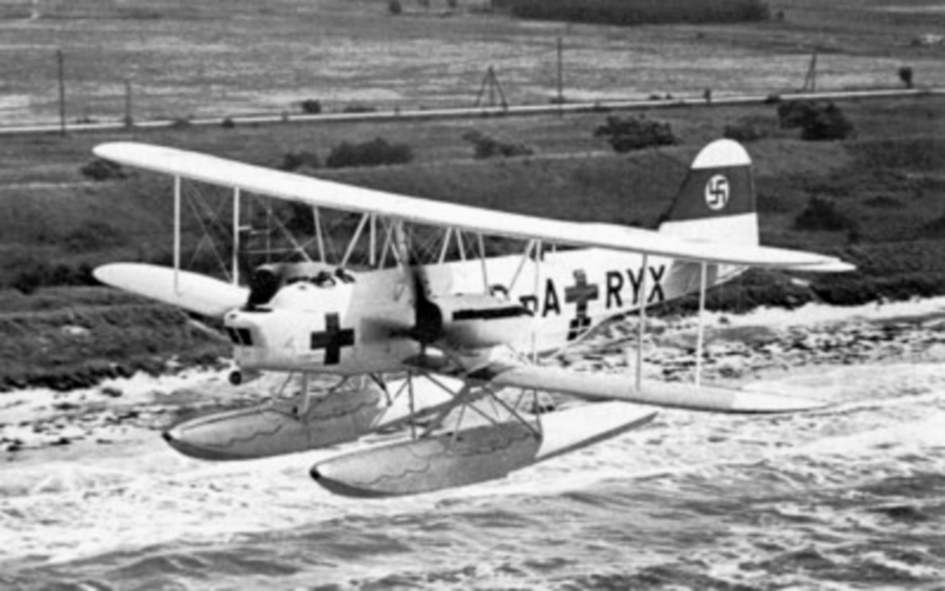 A German Heinkel He 59B-3 search-and-rescue aircraft (Wk.Nr. 1314, D-ARYX) in flight. This was the prototype SAR conversion and reached Seenotflugkommando 2 at List, Sylt island, on 1 August 1940.